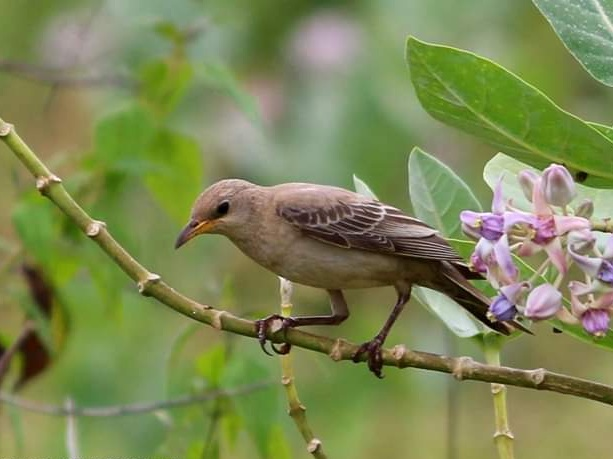 Rosy starling